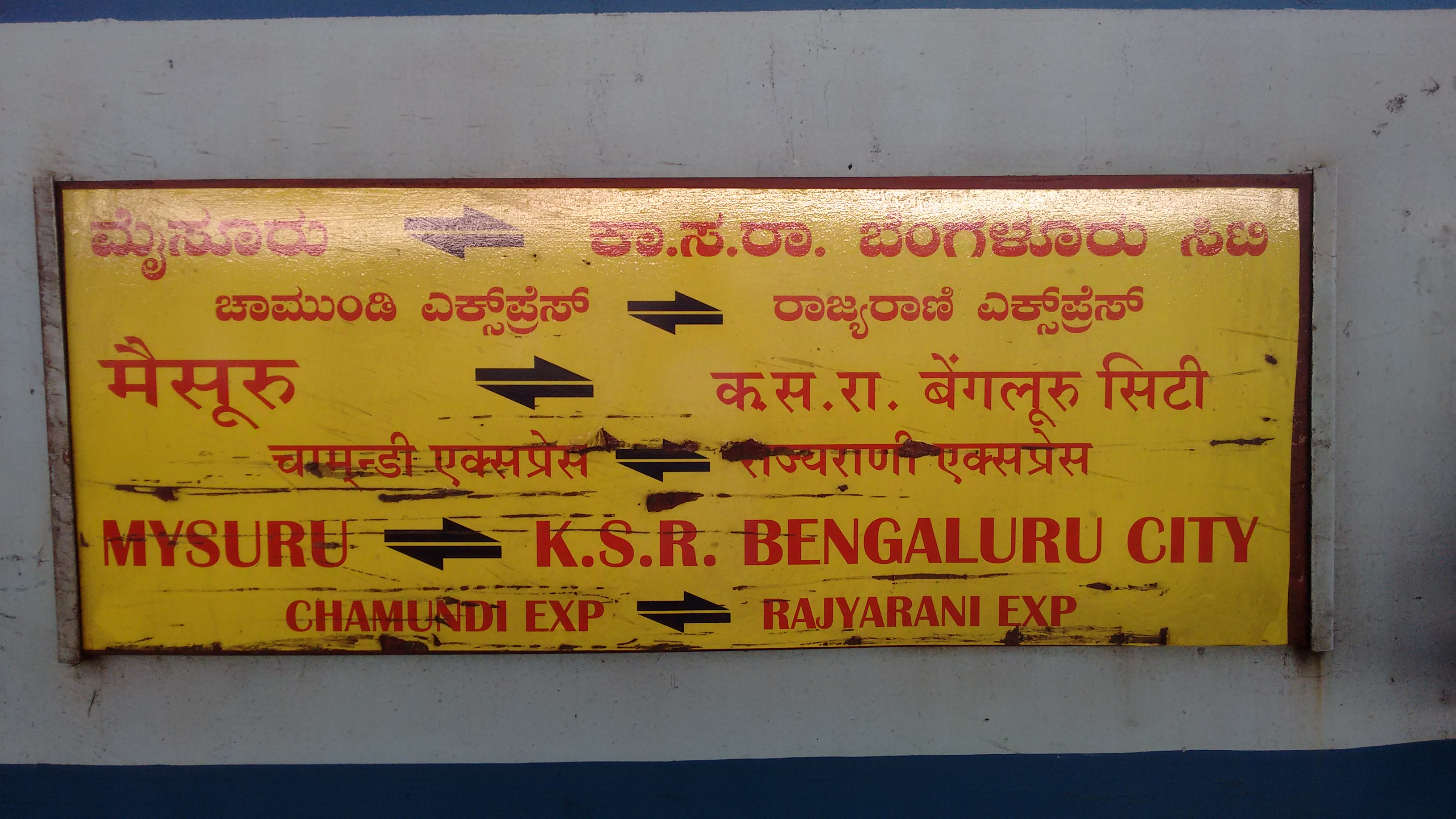 This is the picture of Mysuru Bengaluru Rajyarani which shares Rake with Chamundi Express